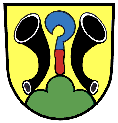 Coat of arms of Ebringen